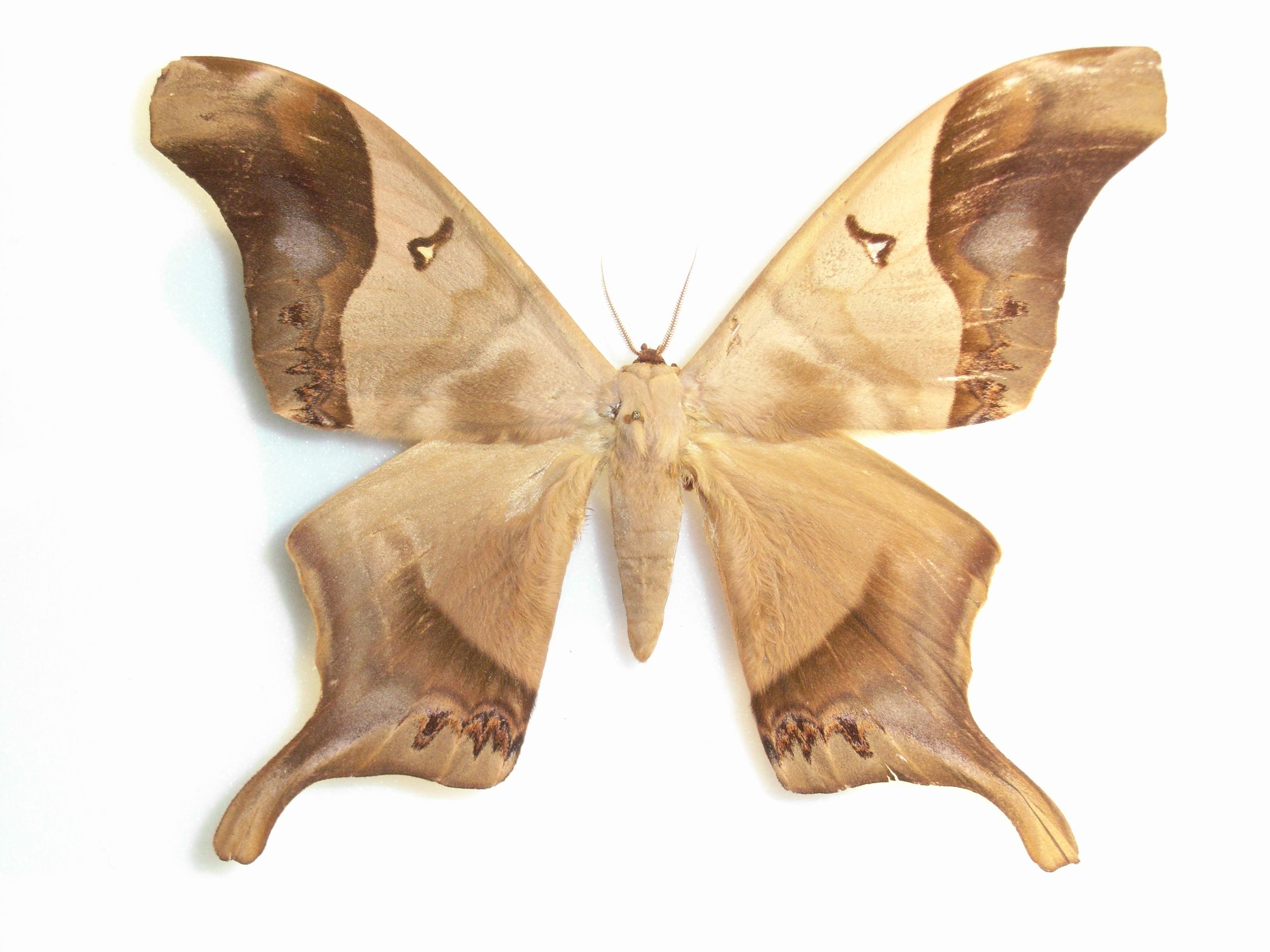 Titaea timur (Fassl, 1915) Ecuador Ex coll. Felix Stumpe